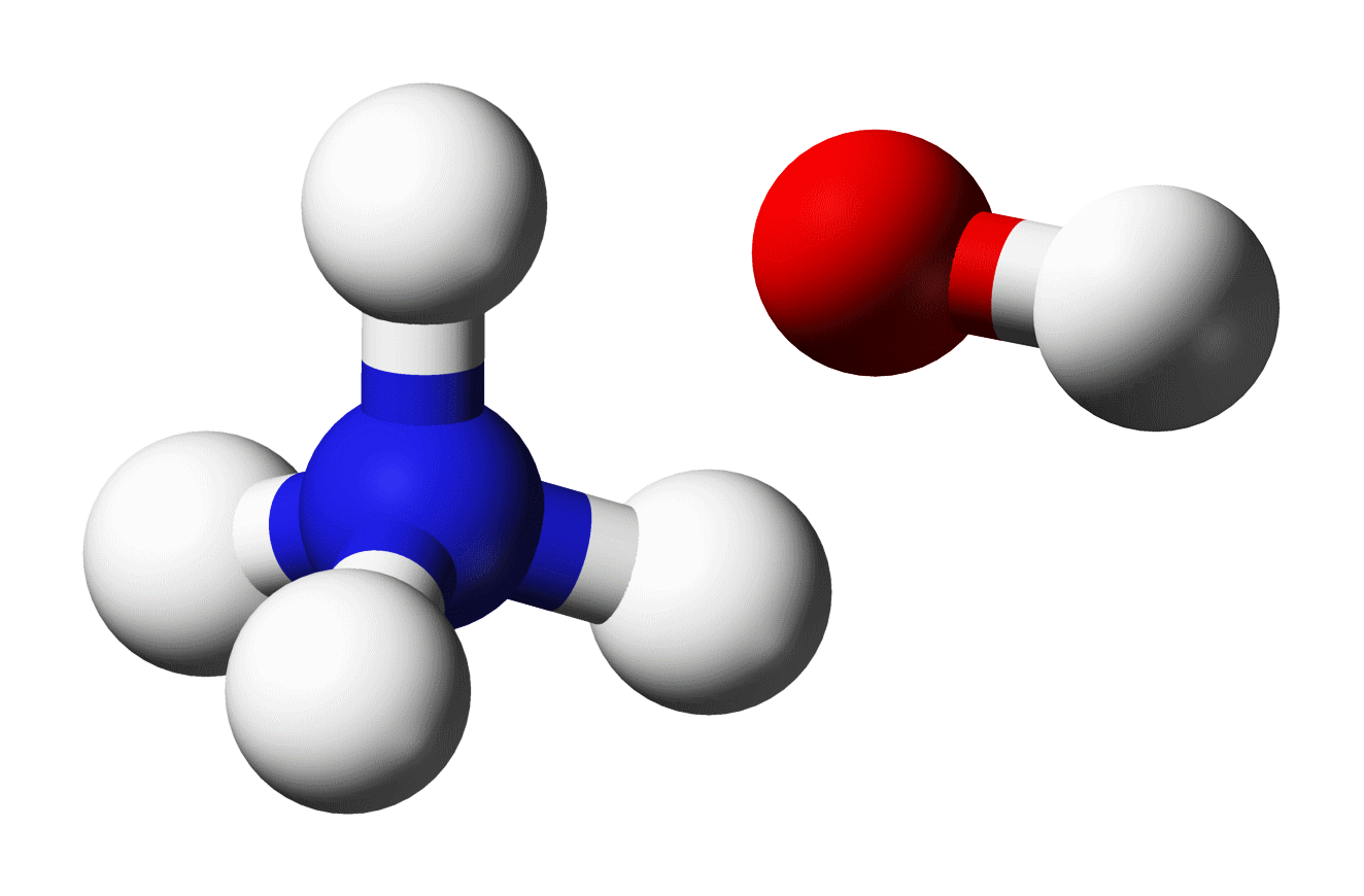 Ammonium hydroxide